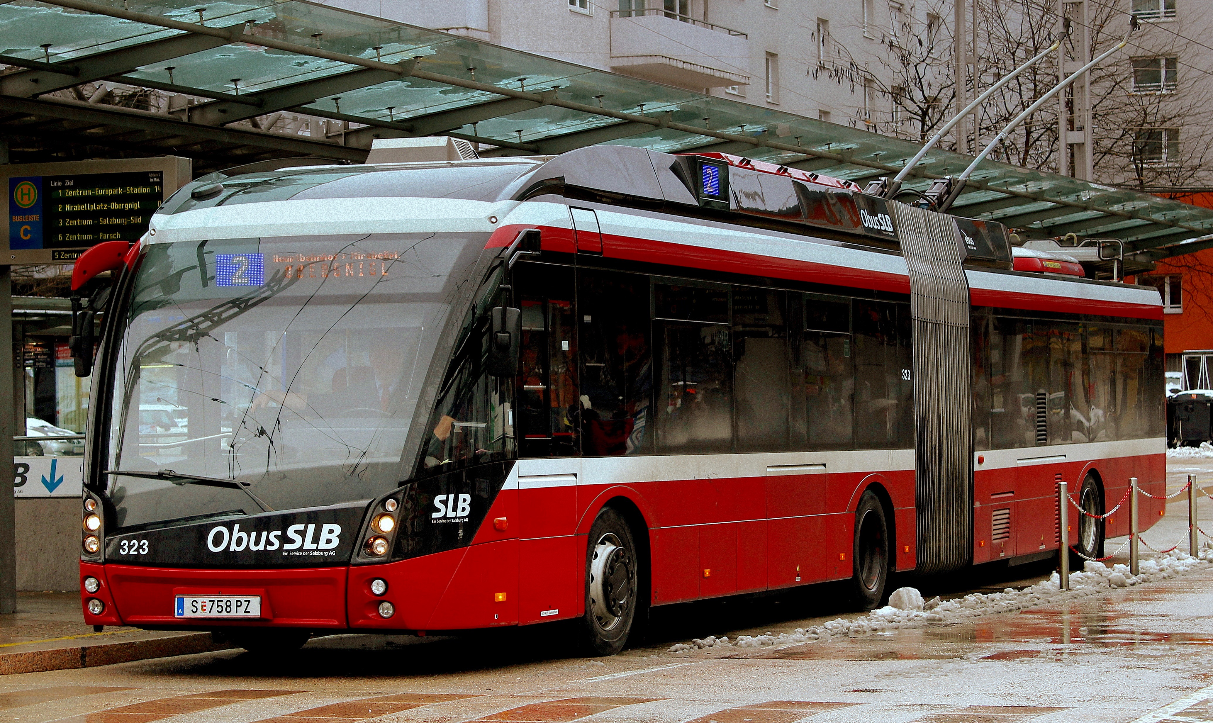 Salzburg (Austria) Solaris Trollino "MetroStyle" trolleybus 323 at Hauptbahnhof, in service on route 2 to Obergnigl.